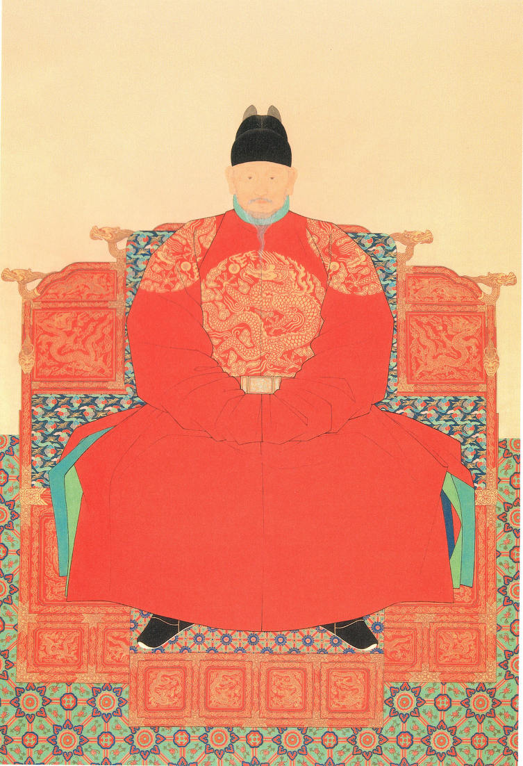 Portrait of King Taejo of Joseon